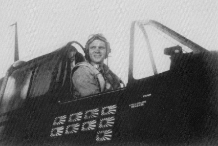 VF-8 pilot Lt. Edward Feightner (later RADM) in the cockpit of his F6F Hellcat. Note the scoreboard of flags showing his nine aerial victories.